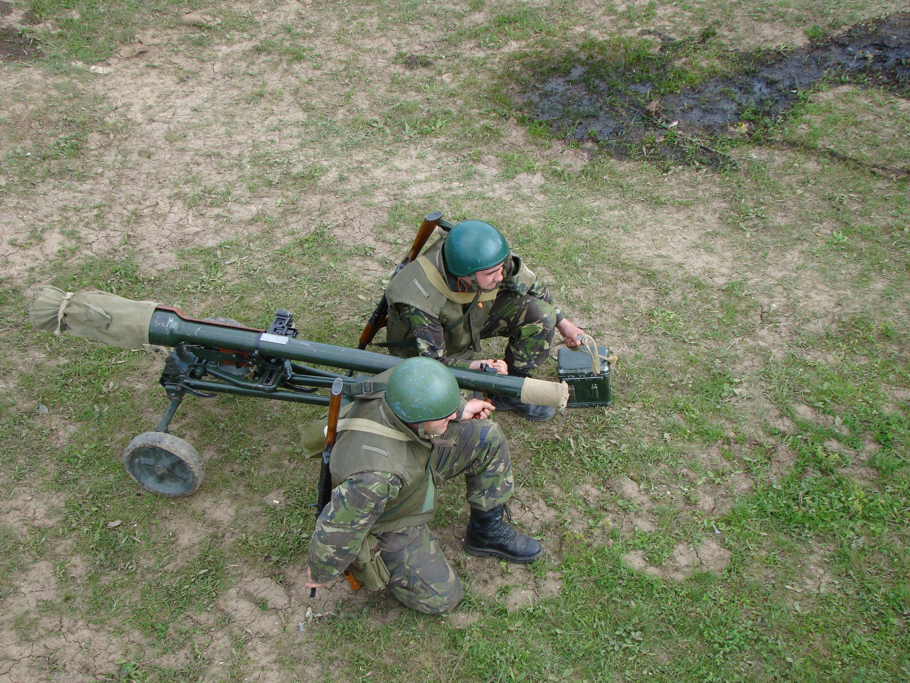 Romanian soldiers operating a AG-9 recoilles rifle (licensed built SPG-9) during a military exercise of the 191st Infantry Battalion.